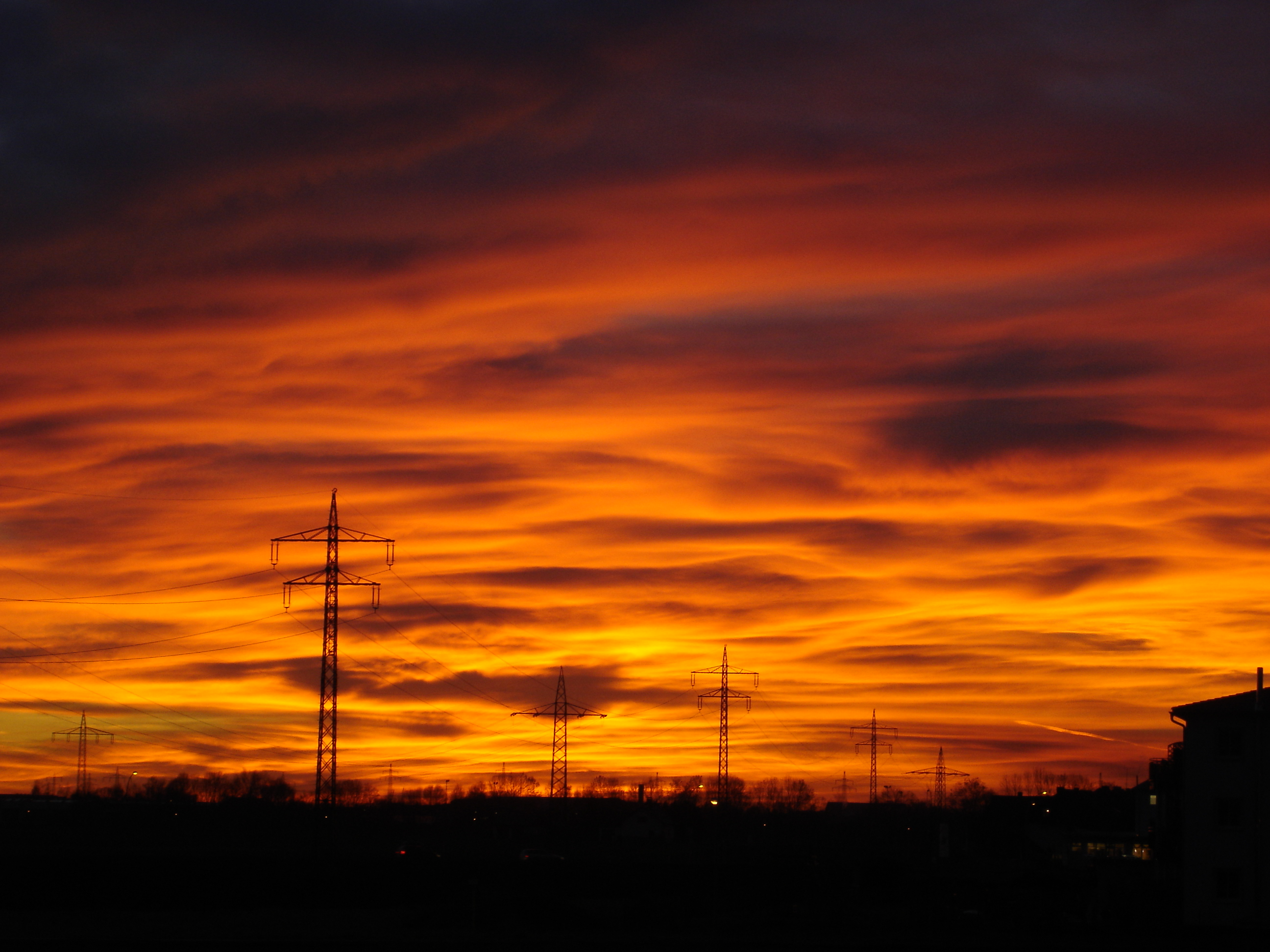 Sunset in Landshut/Bavaria